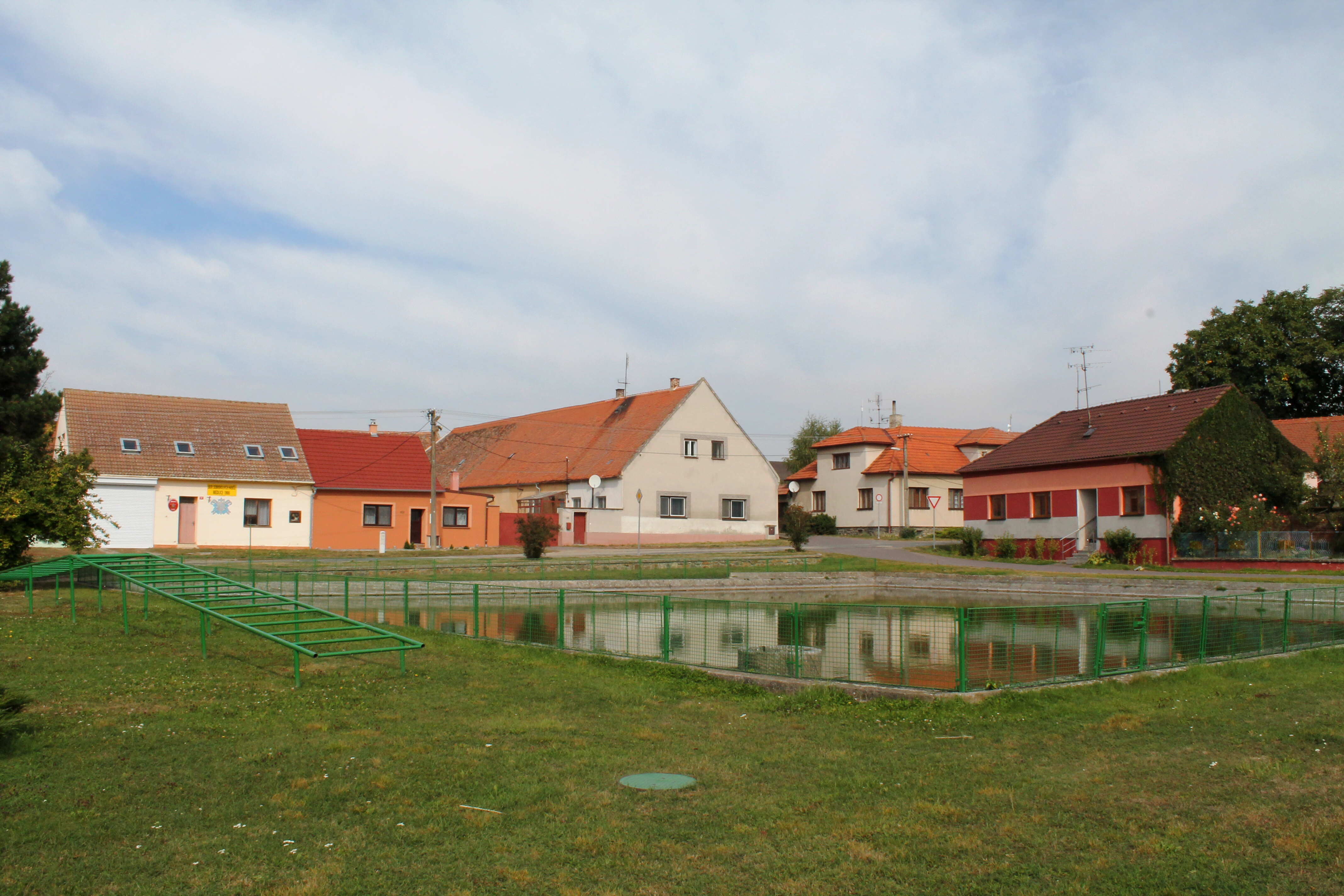 Water reservoir, Medlice, Znojmo District, Czech Republic This photograph was taken during a group photography field trip by Brno Wikipedians: 2016-09-28.